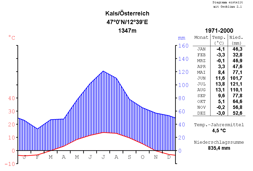 climate chart of Kals, Austria, for the period of time from 1971 to 2000, in the format by Walter and Lieth, metric, °Celsius and millimeters, chart made with Geoklima 2.1, label in German